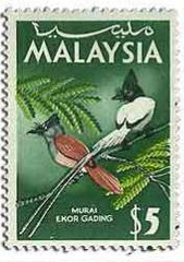 1965 stamps illustrating tha Malaysia bird locally called Murai Ekor Gading.